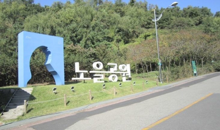 Noeul Park in World Cup Park, Korea